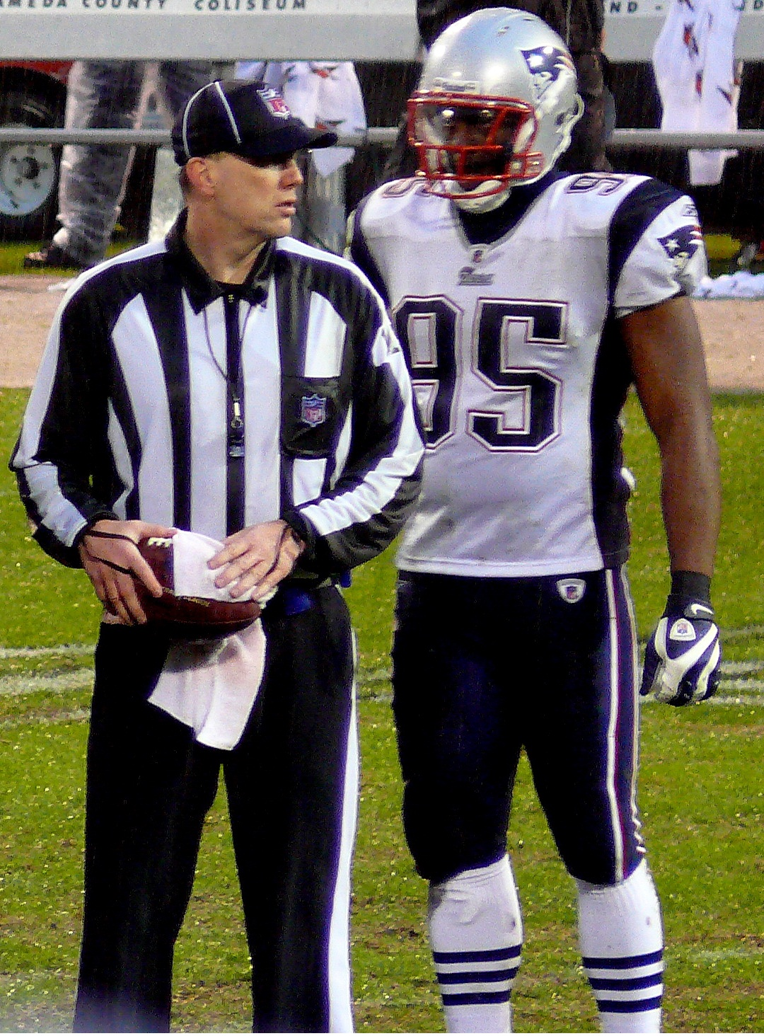 Rosevelt Colvin on the sidelines with referee John Parry at the New England Patriots at Oakland Raiders NFL game on December 14, 2008. Cropped.